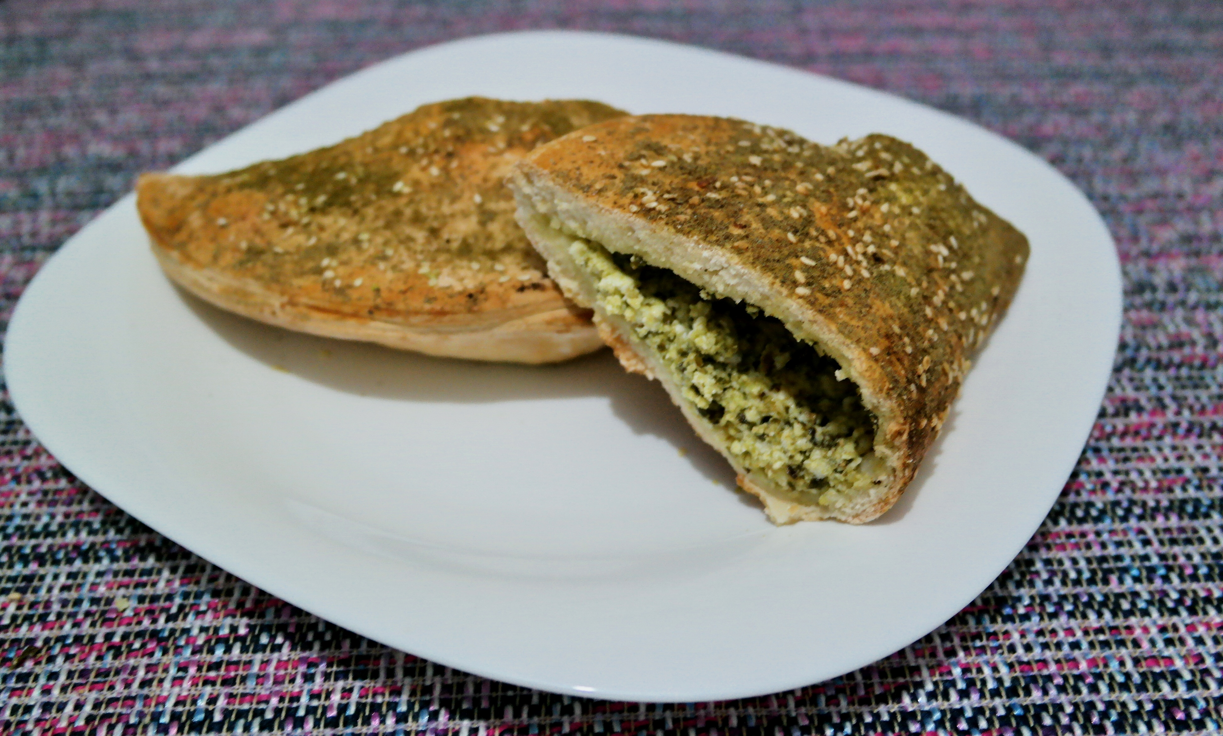 Sambusak filled with bulgarit (sirene) cheese and pesto, covered with za'atar